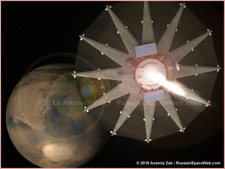 Illustration of Mars 5NM Space Probe performing a course correction before entering the Martian atmopshere.